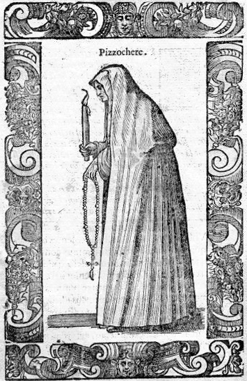 Dress of the beguine.